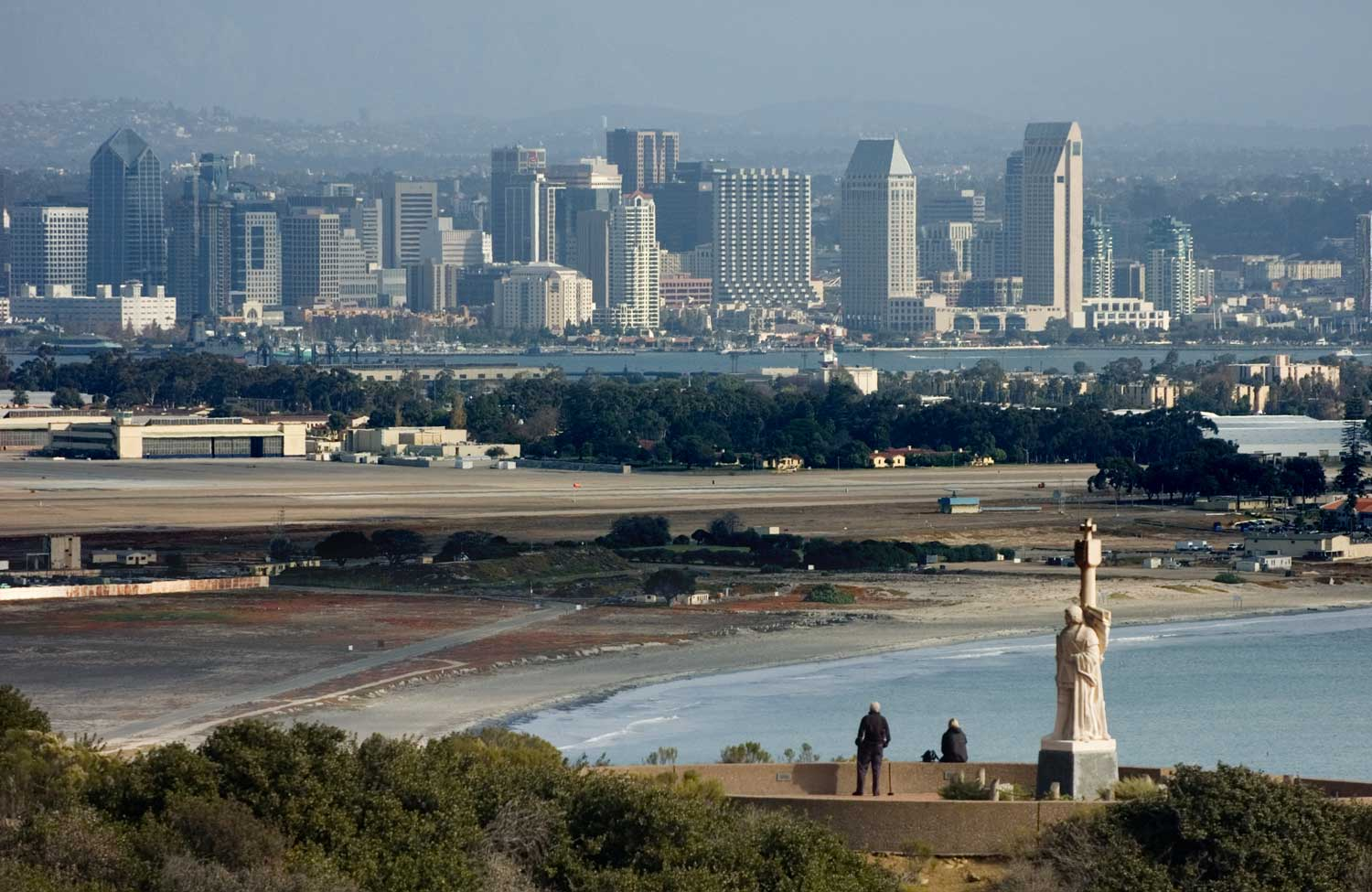 San Diego Skyline as seen from the Cabrillo National Monument. Photo by Chuck Szmurlo taken December 10, 2006 with a Nikon D70 and a Nikon 70-200 f2.8 lens.